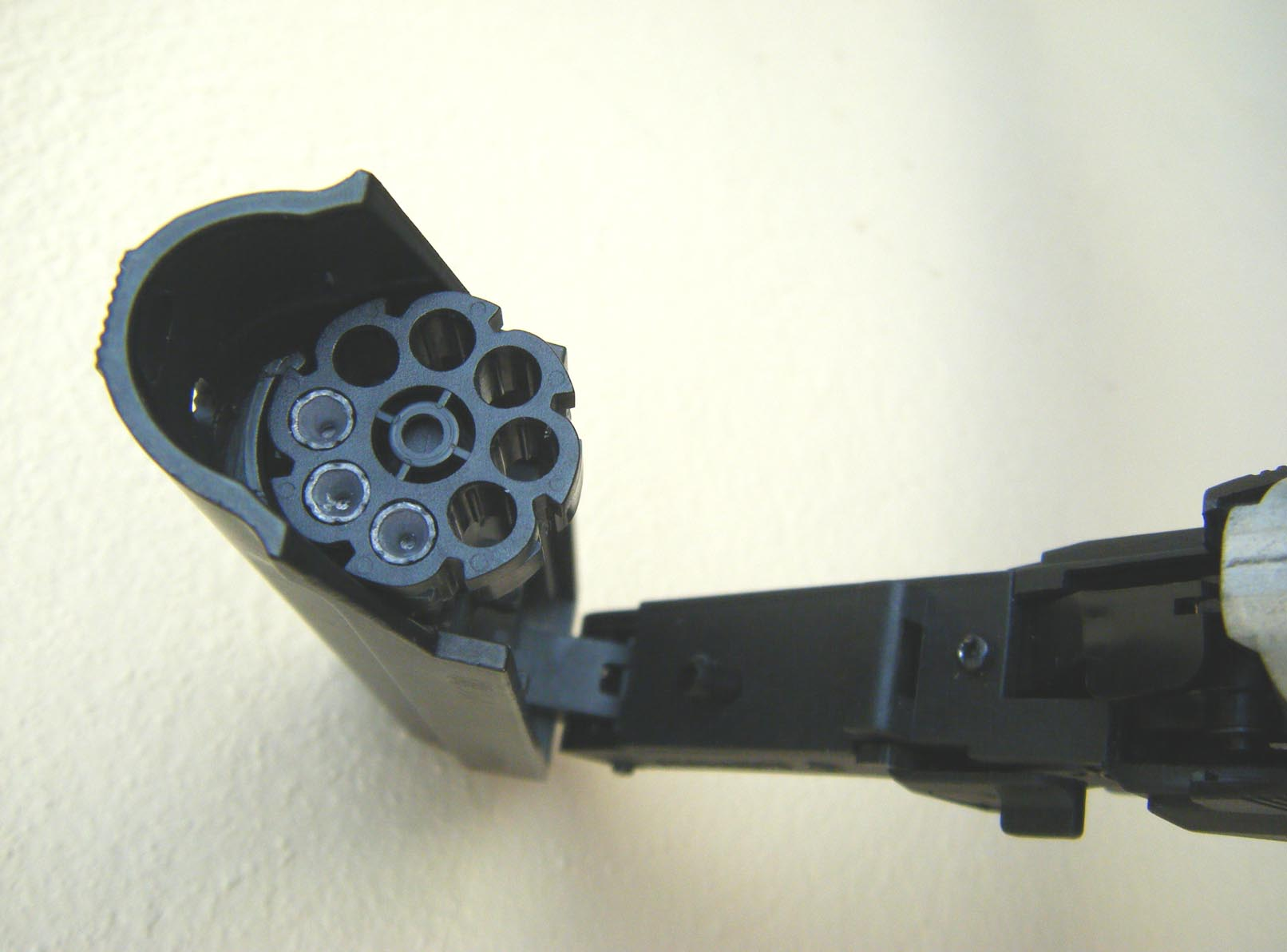 Air gun 4